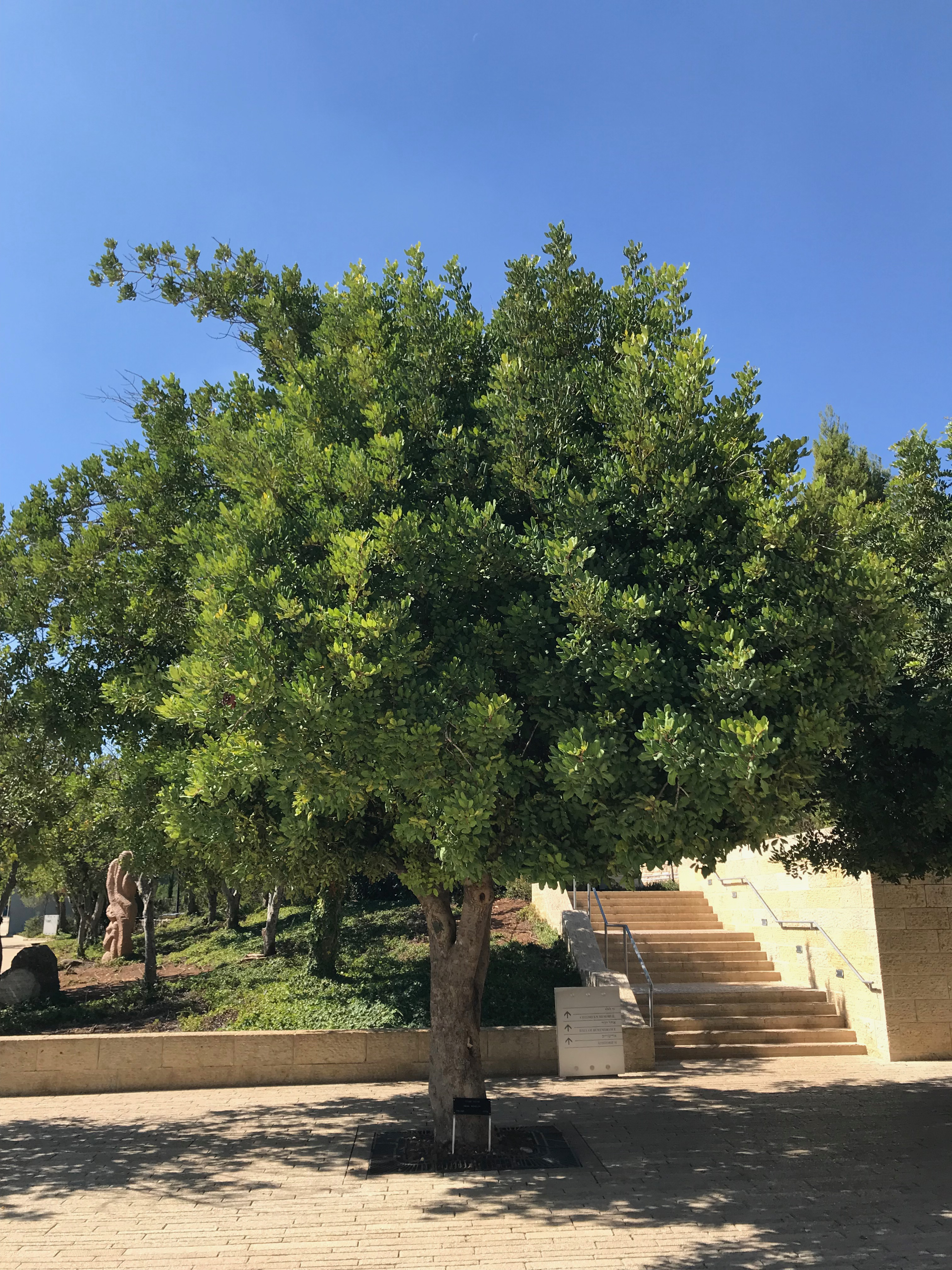 Tree, memorial honoring Irena Sendler (Polish Roman Catholic nurse who saved 2,500 Jews when it was forbidden during the Holocaust, crime by Nazi Germany) in Jerusalem, Israel (The Garden of the Righteous Among the Nations, Yad Vashem).